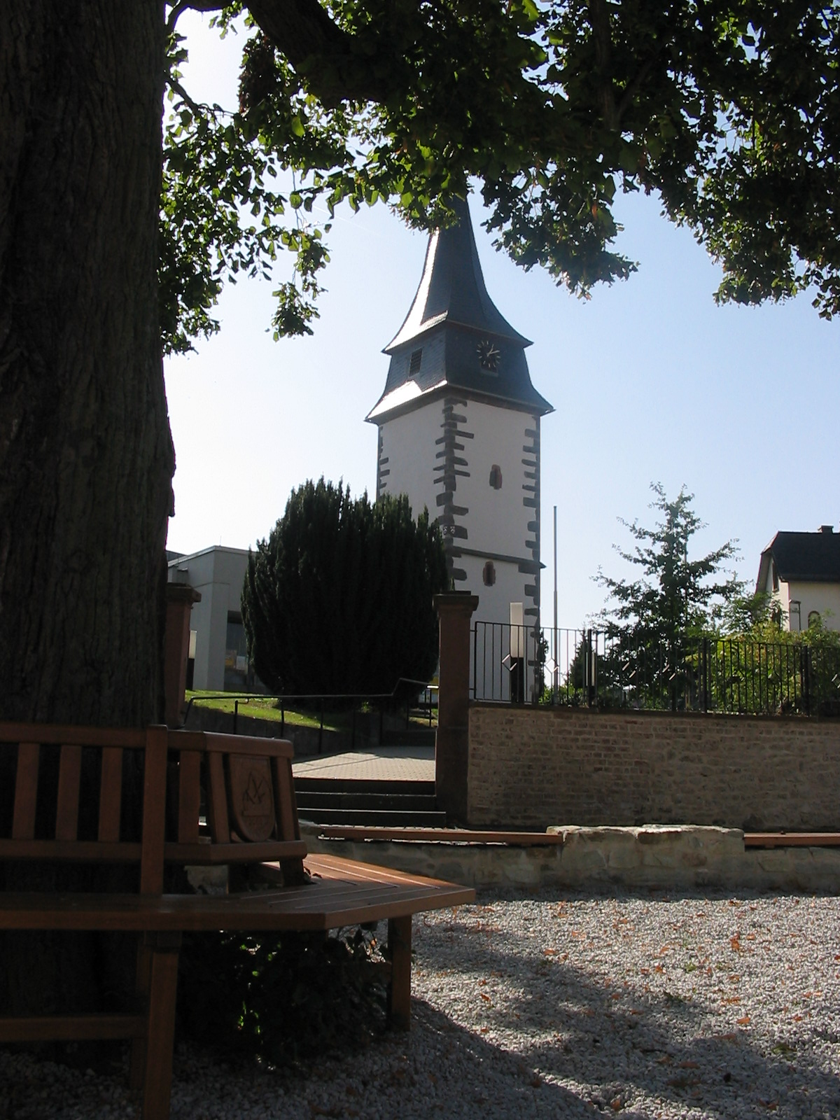 The tower of the Church of St. Sebastian in Stierstadt, part of the town Oberursel, Hesse, Germany.